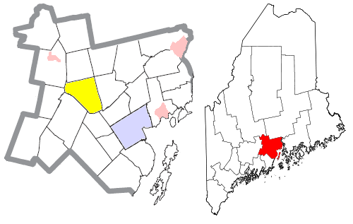 Map of the divisions of Waldo County, Maine, United States, with the town of Knox highlighted in yellow. The city of Belfast is light blue; other towns are white; and pink areas are census-designated places within towns.